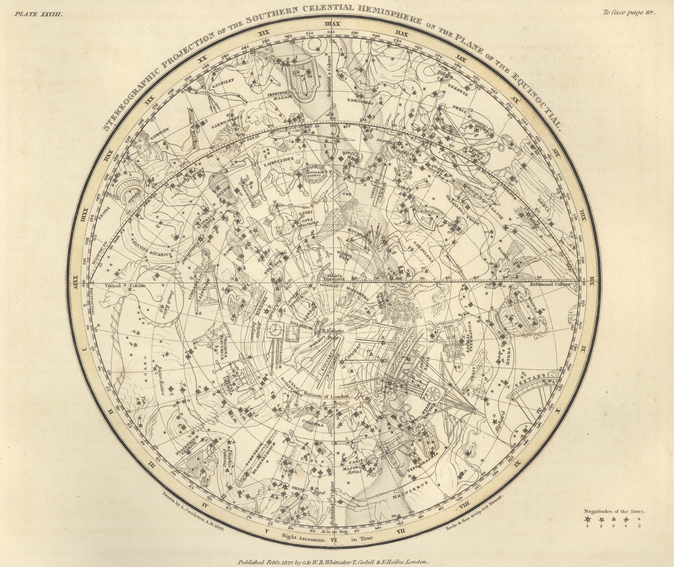 Plate 28 from A celestial atlas comprising a systematic display of the heavens in a series of thirty maps illustrated by scientific description of their contents and accompanied by catalogues of the stars and astronomical exercises